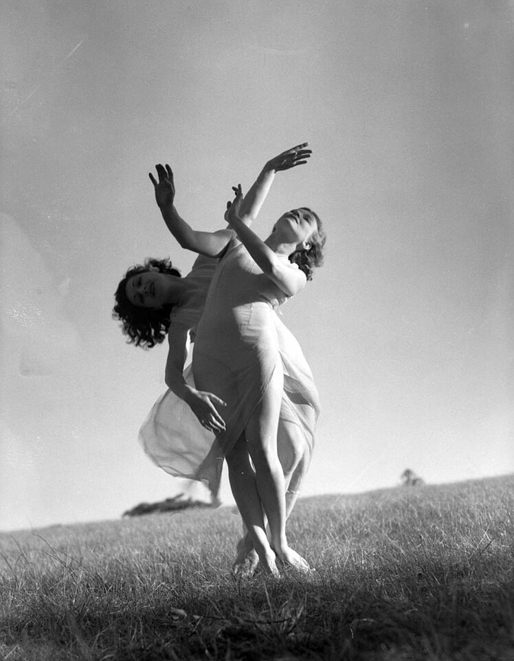 Format: Negtaive and copy print Find more detailed information about this photograph: .au/item/itemDetailPaged.aspx?itemID=414459 Information about photographic collections of the State Library of New South Wales: .au/search/SimpleSearch.aspx From the collection of the State Library of New South Wales